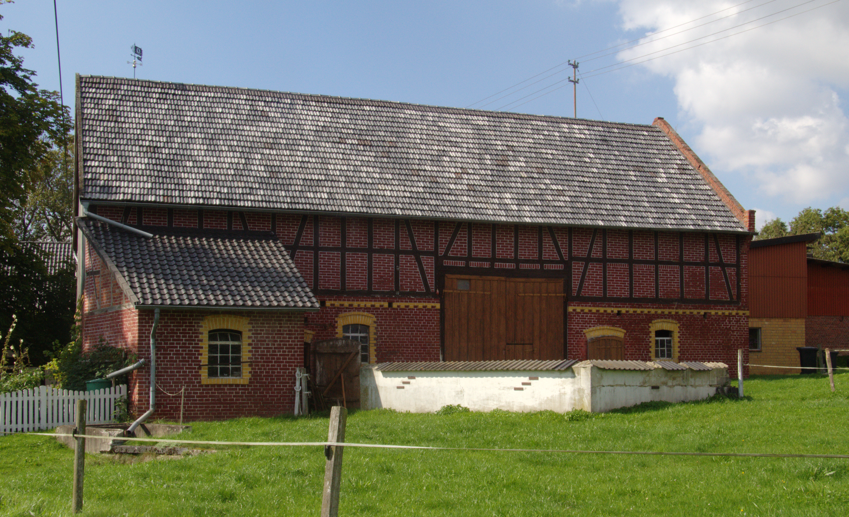 Half-timbered building (Water mill) in Hattendorf Berfmühle 1, Alsfeld, Hesse, Germany